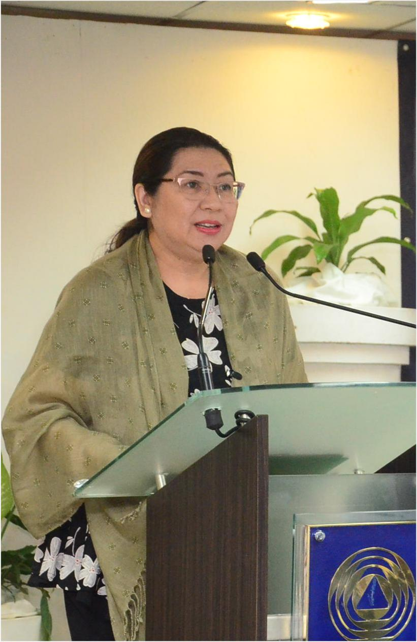 Dr. Aileen Baviera bats for greater focus on the interests of stakeholders threatened by the South China Sea dispute. Dr. Baviera is one of the panelists in the Maritime Security Symposium sponsored by the Development Academy of the Philippines Graduate School of Public and Development Management and the Philippine Navy.